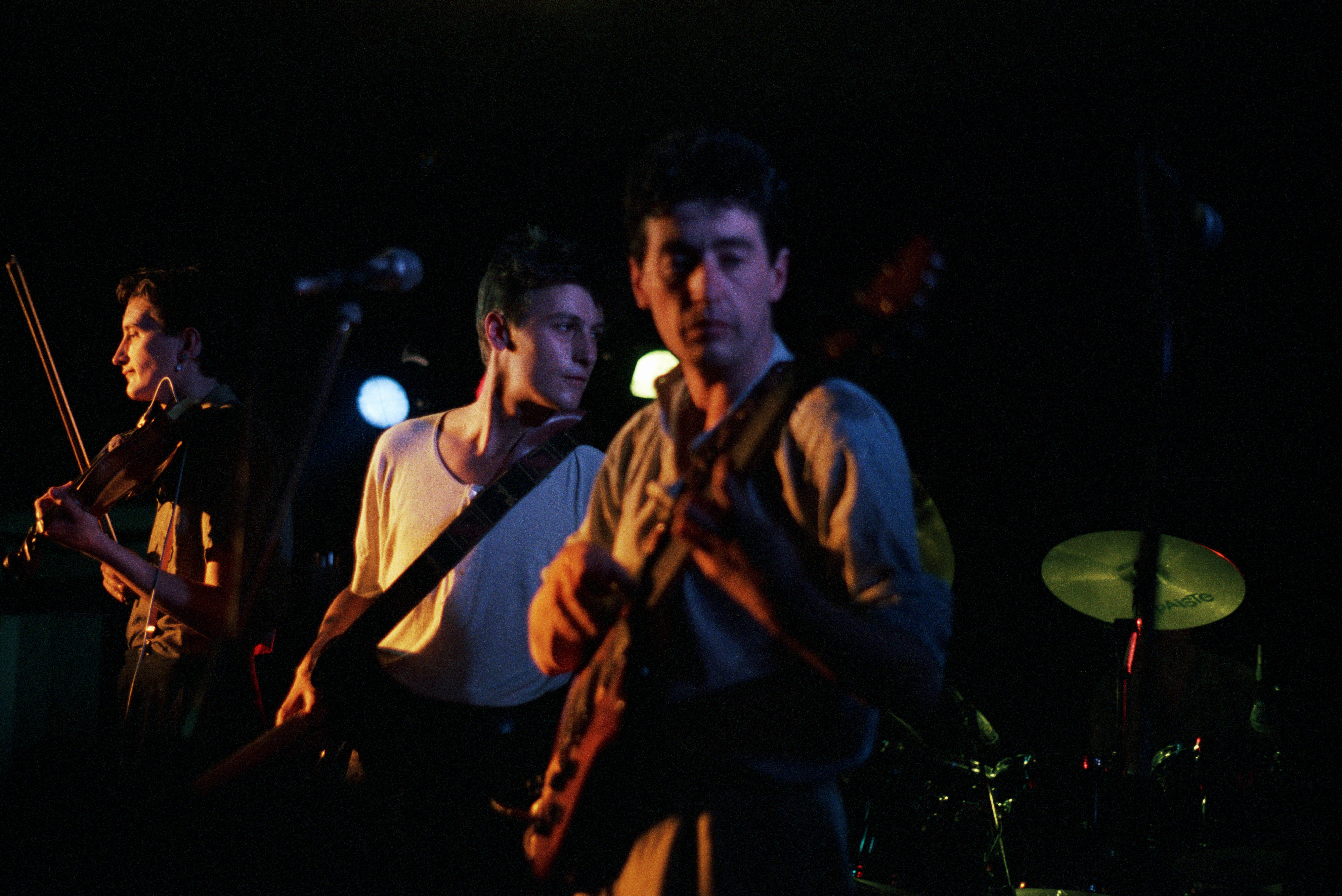 Chris Thompson, Steve Hywyn Jones, Phil Bradley - Brodyr y Ffin. Roc ystwyth music festival , Neuadd yr Undeb, Aberystwyth University, August 1986. Image by Medywn Jones